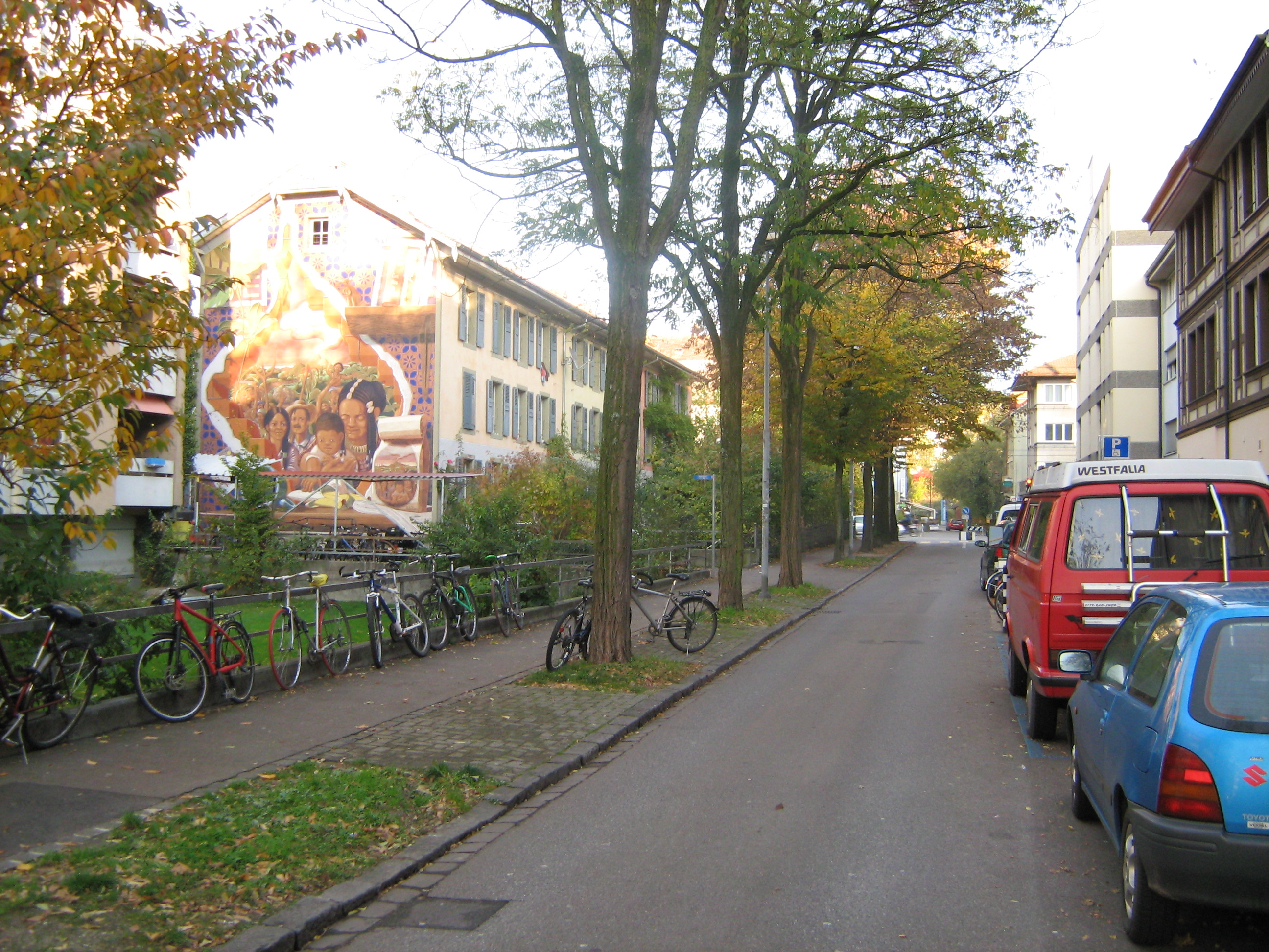 Bern, Quartierstrasse (quarter Lorraine, disctrict Breitenrain-Lorraine)